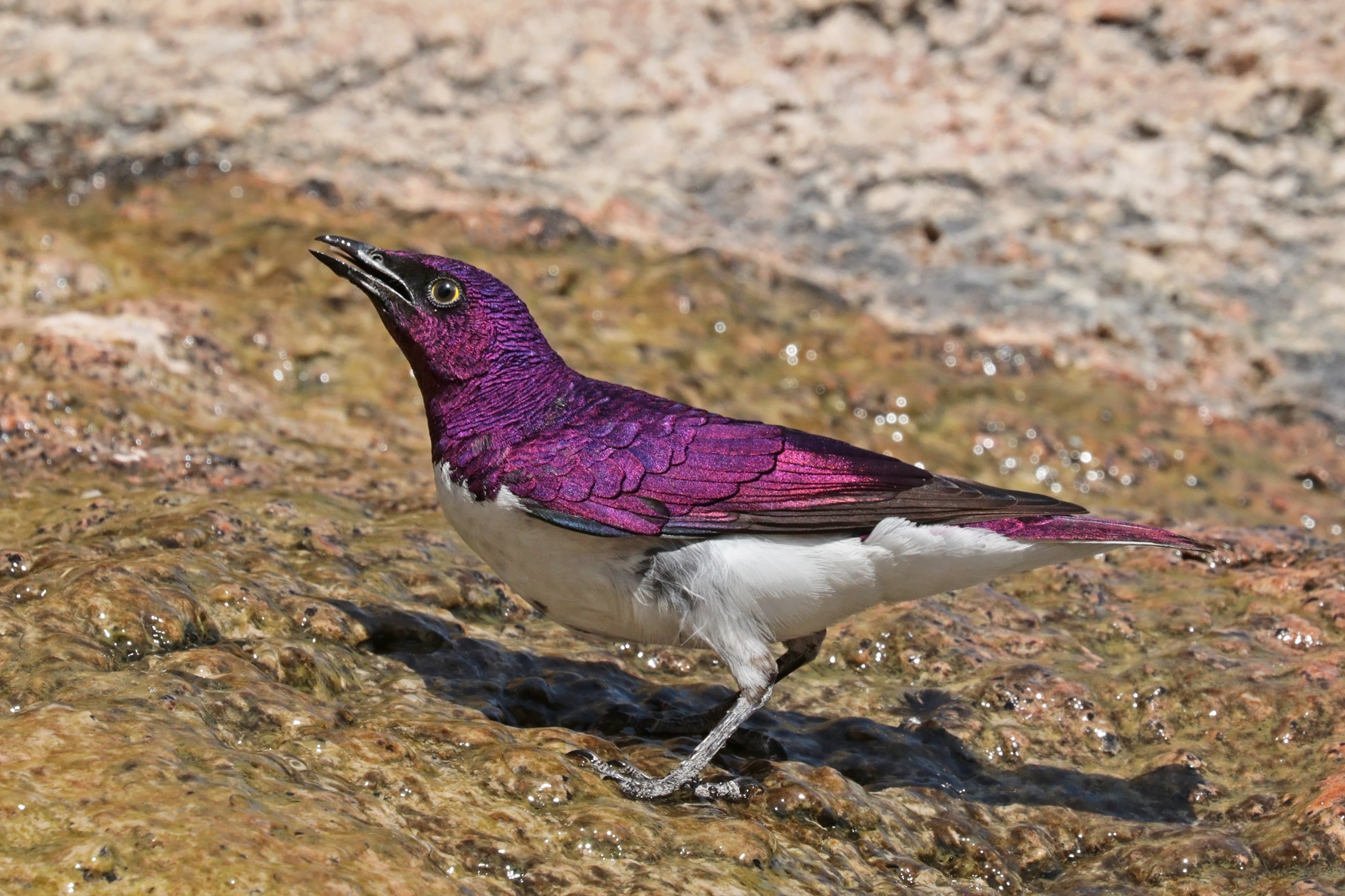 Violet-backed starling (Cinnyricinclus leucogaster verreauxi) male, Damaraland, Namibia